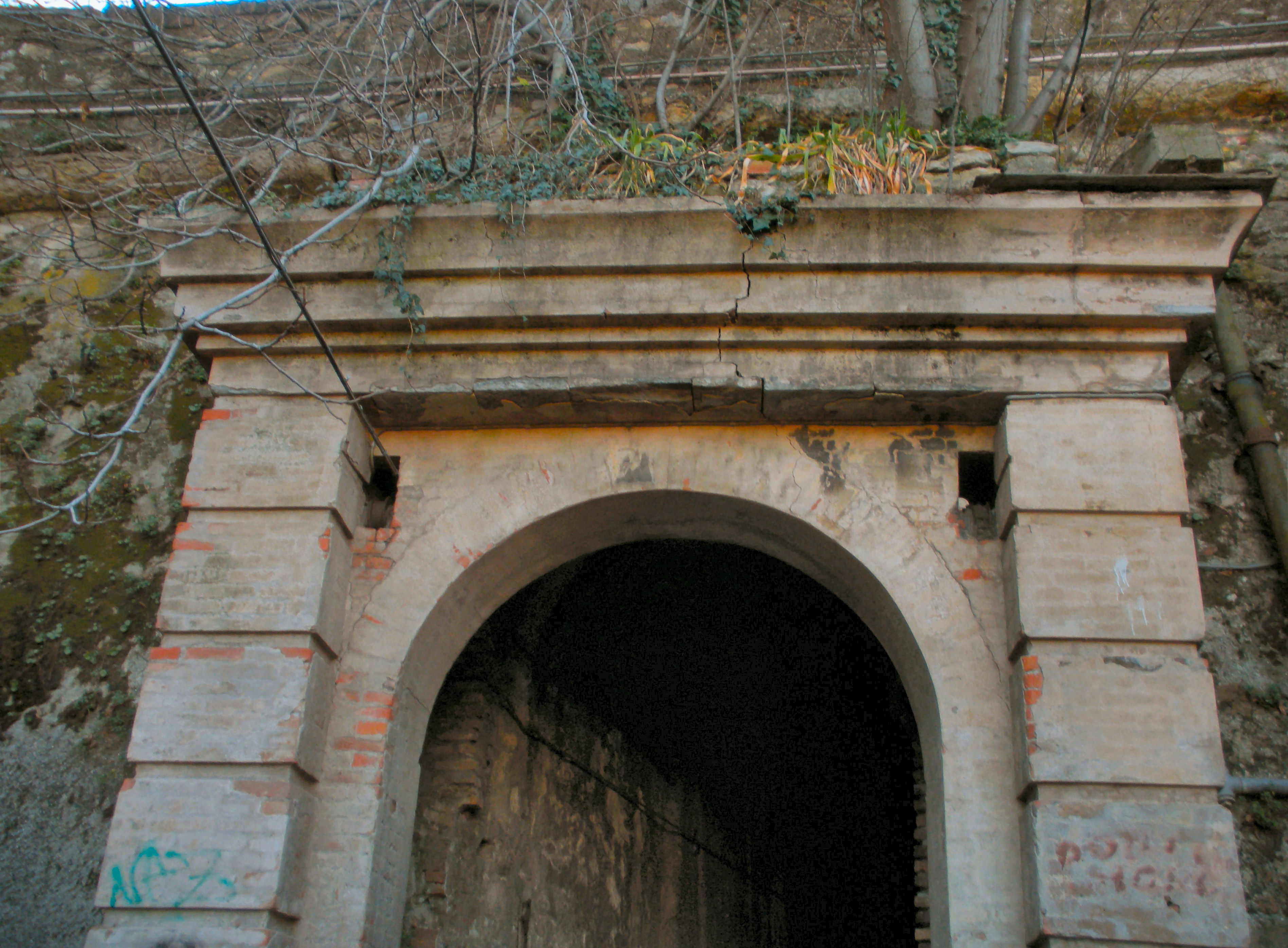 Genoa (Italy), New Walls, S. Bartolomeo gate